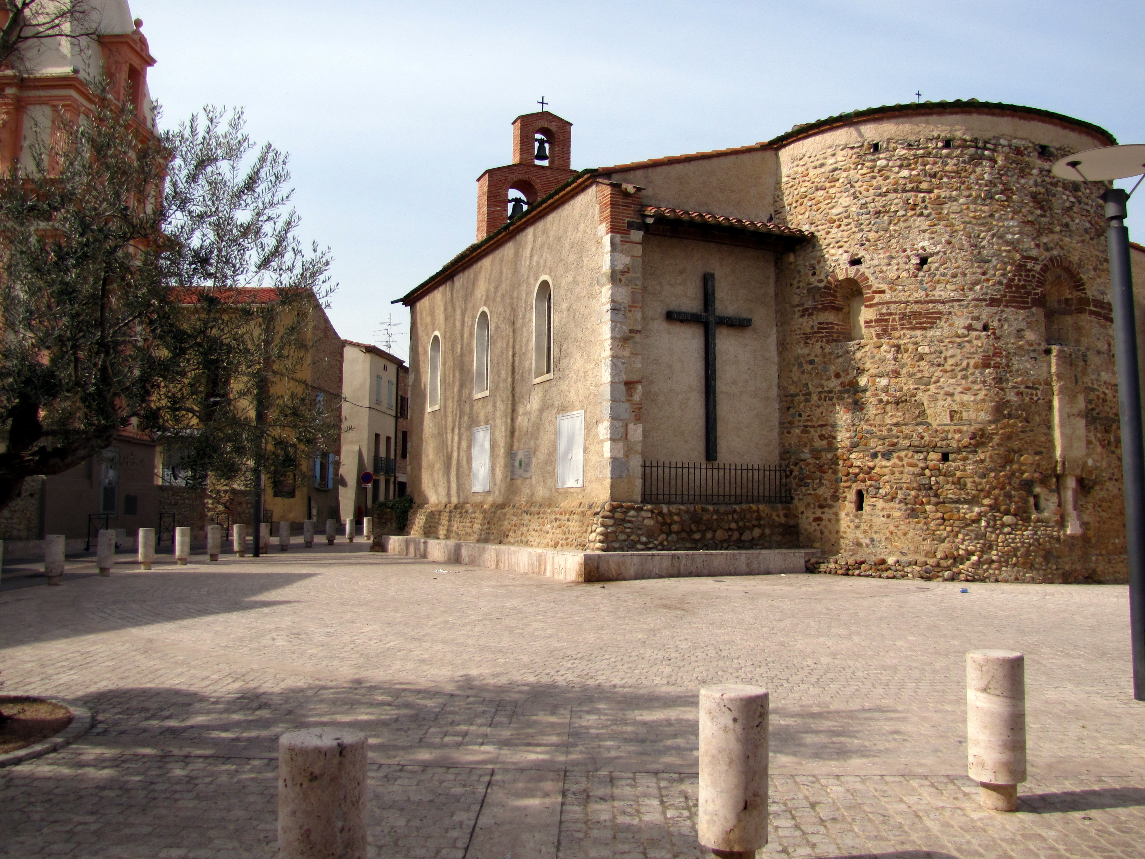 View of parochial church of Santa Maria de Toluges